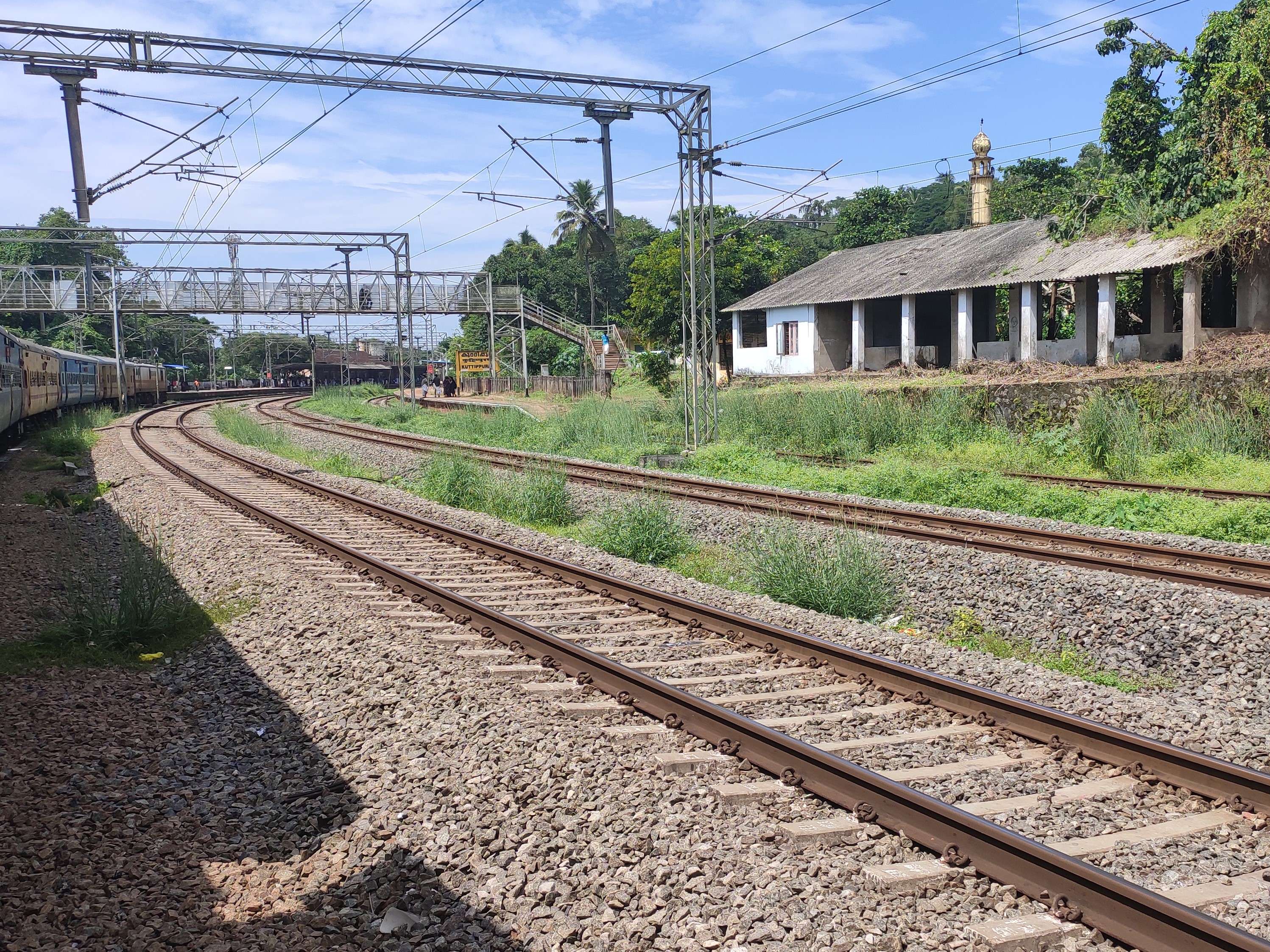 Kuttippuram Railway Station